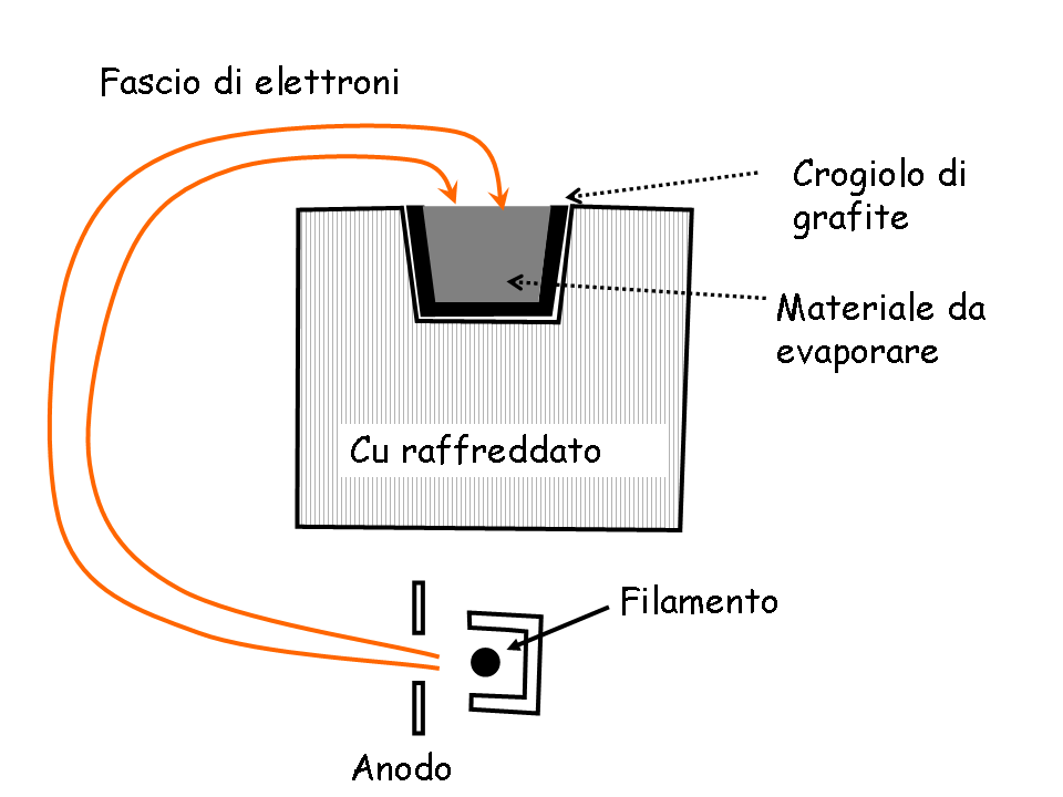 Scheme of a electron-beam evaporation system